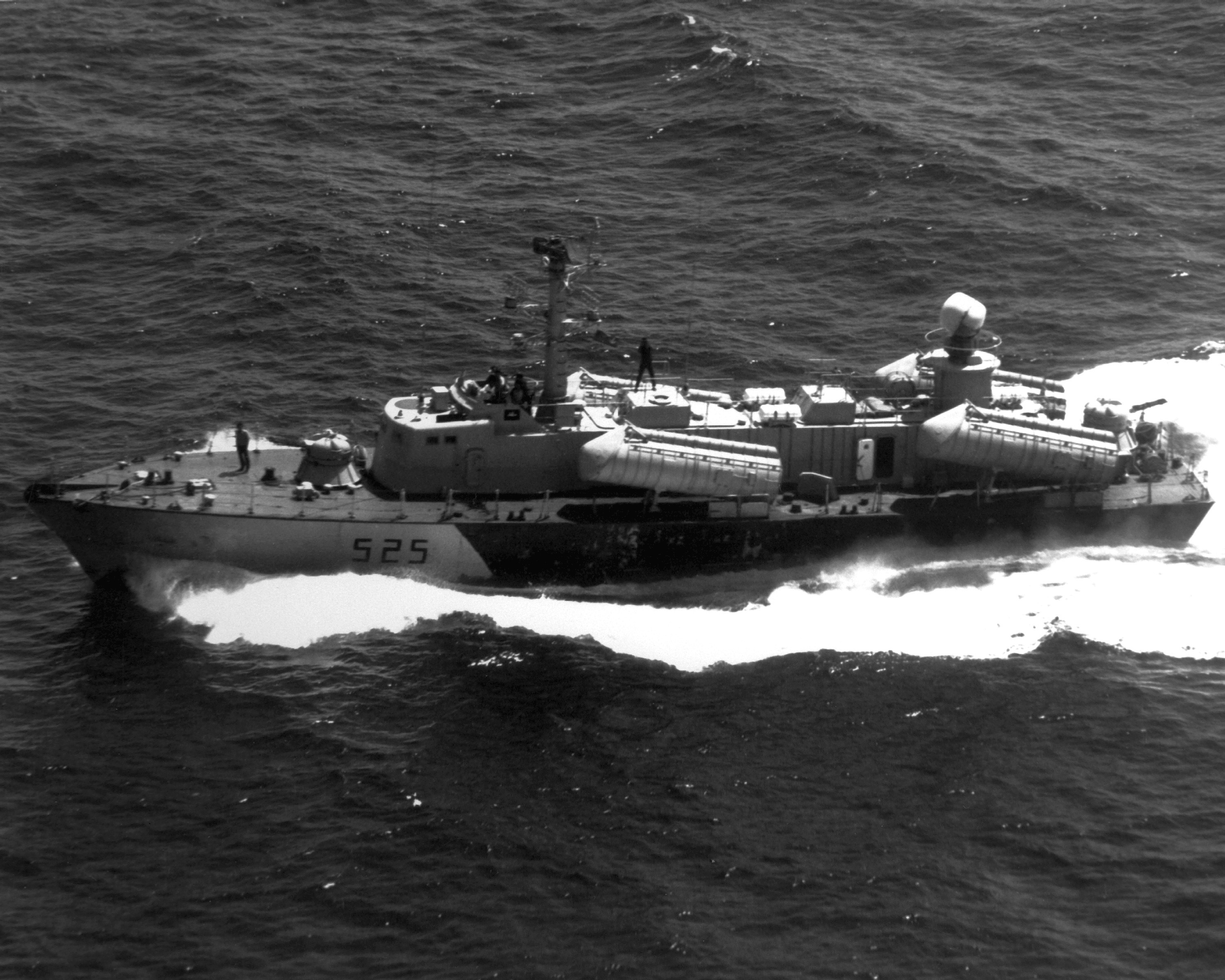 A port beam view of the Soviet built project 205ER (NATO code Osa II) guided missile boat El Mtkhur (525) underway.